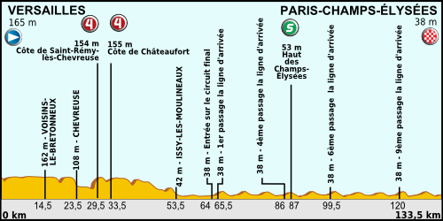 Tour de France 2013 - Profile Stage No. 21